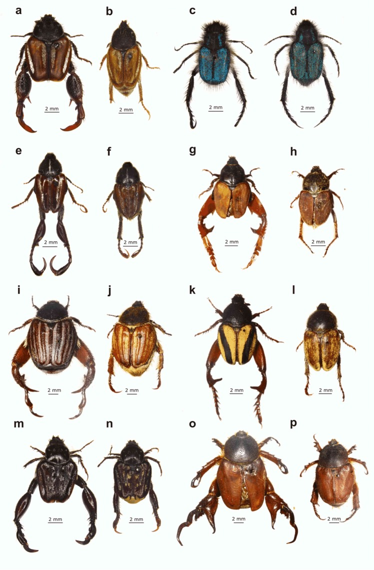 Examples of dimorphic South African monkey beetles showing diversity in body and hind leg shape and form, and colour pattern. Male at left for each pair: (A and B) Pachycnema calcarata (Burmeister, 1844), (C and D) Anisonyx ditus (Péringuey, 1902), (E and F) Heterochelus bivittatus (Burmeister, 1844), (G and H) Heterochelus detritus (Burmeister, 1844), (I and J) Denticnema striata (Burmeister, 1844), (K and L) Heterochelus chiragricus (Thunberg, 1818), (M and N) Pachycnema crassipes (Fabricius, 1775), (O and P) Hoplocnemis crassipes (Olivier, 1789).